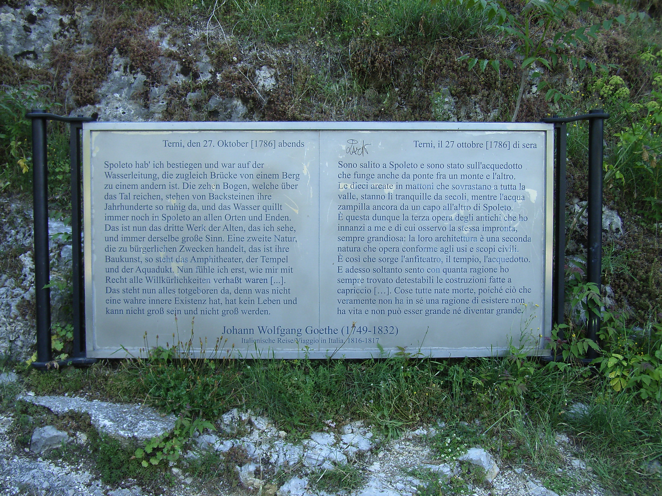 Spoleto (Italy): Ponte delle Torri